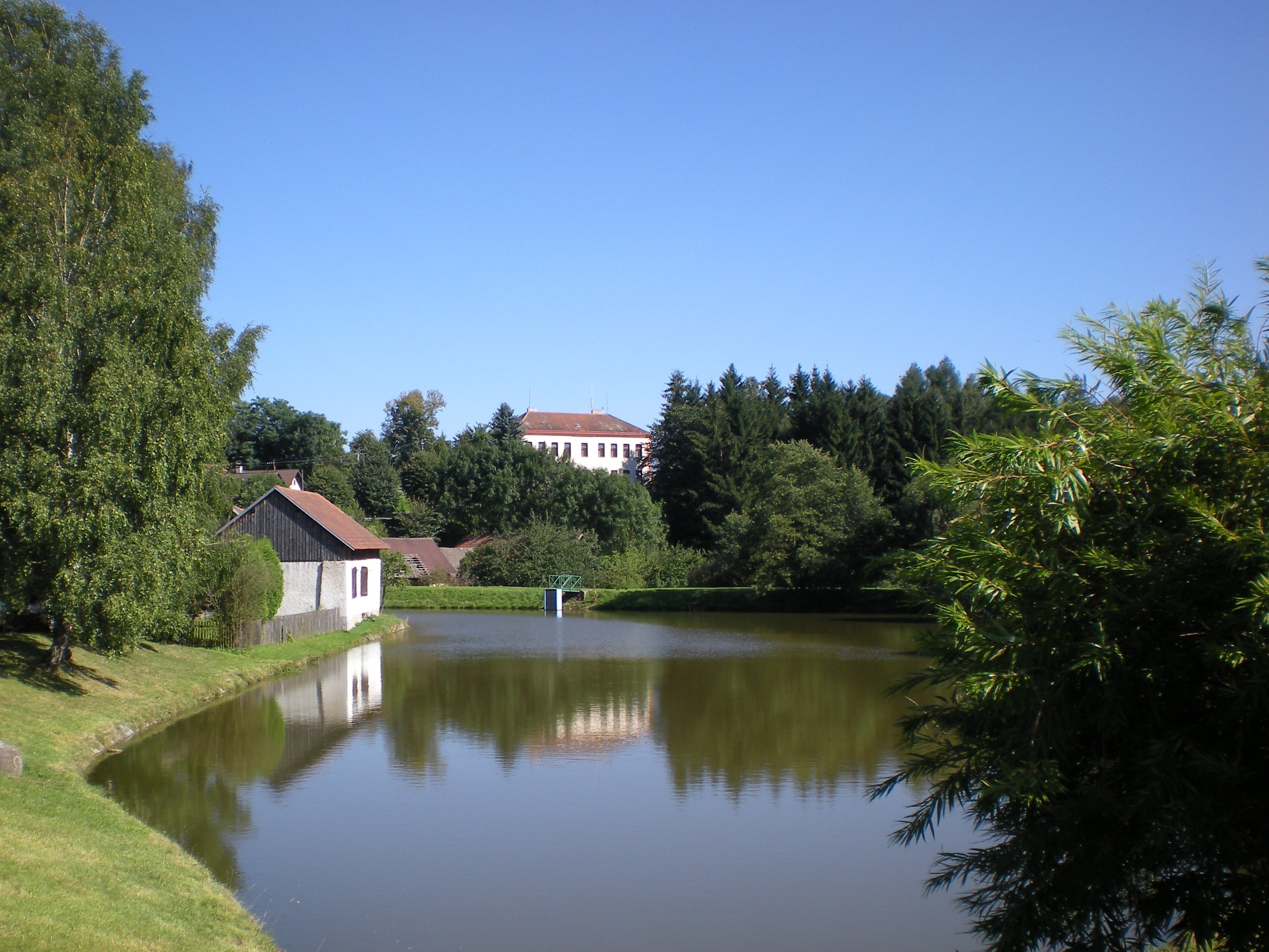 A pond in Blažejovice. A building of past school can be seen in the center of the image.